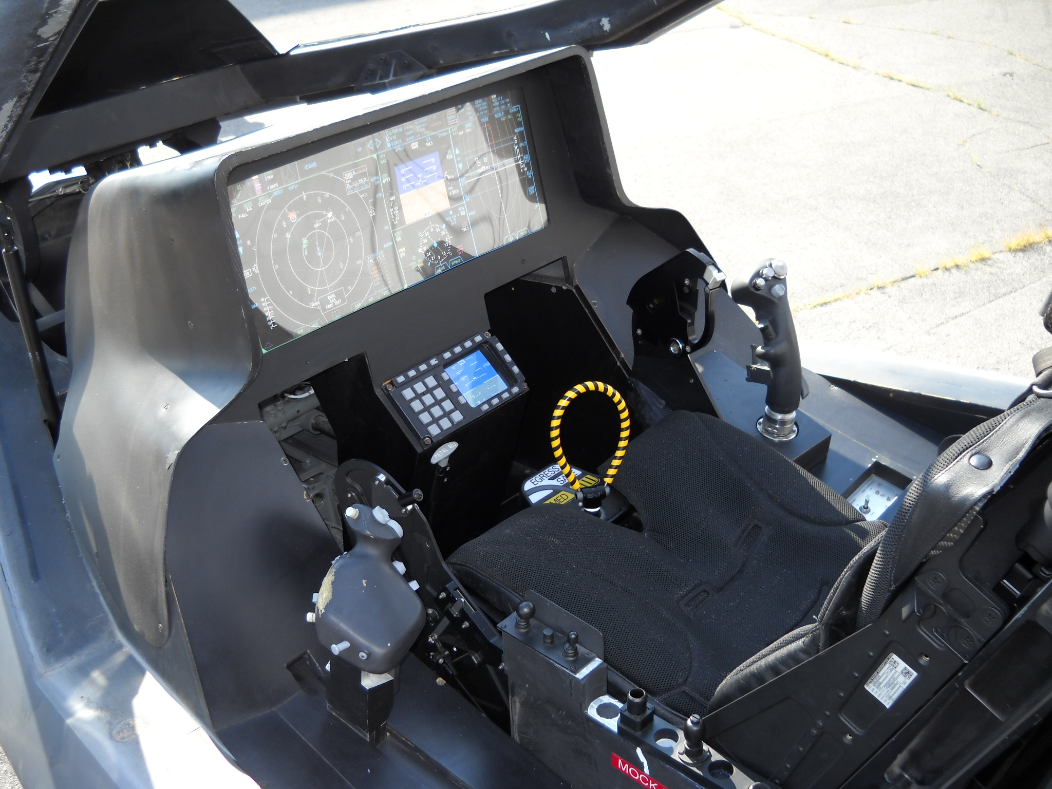 The cockpit and instrument panel of a Lockheed Martin F-35 Lightning II mock-up displayed at the Classic Air Rallye, Canada Aviation and Space Museum, Rockcliffe Airport, Ottawa, Ontario, Canada